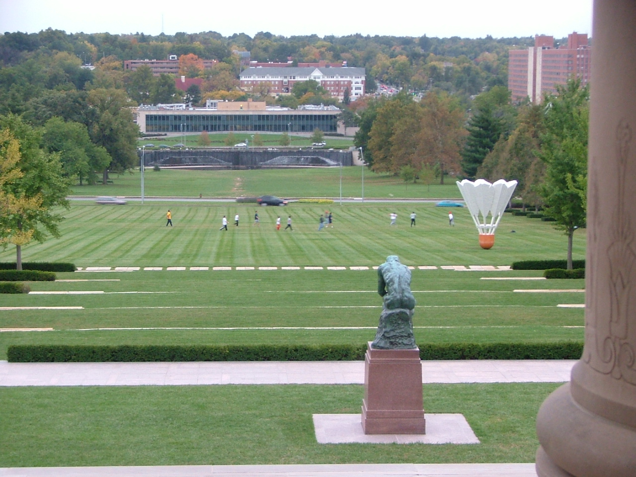 More shuttlecocks, people, and nice green lawns :)